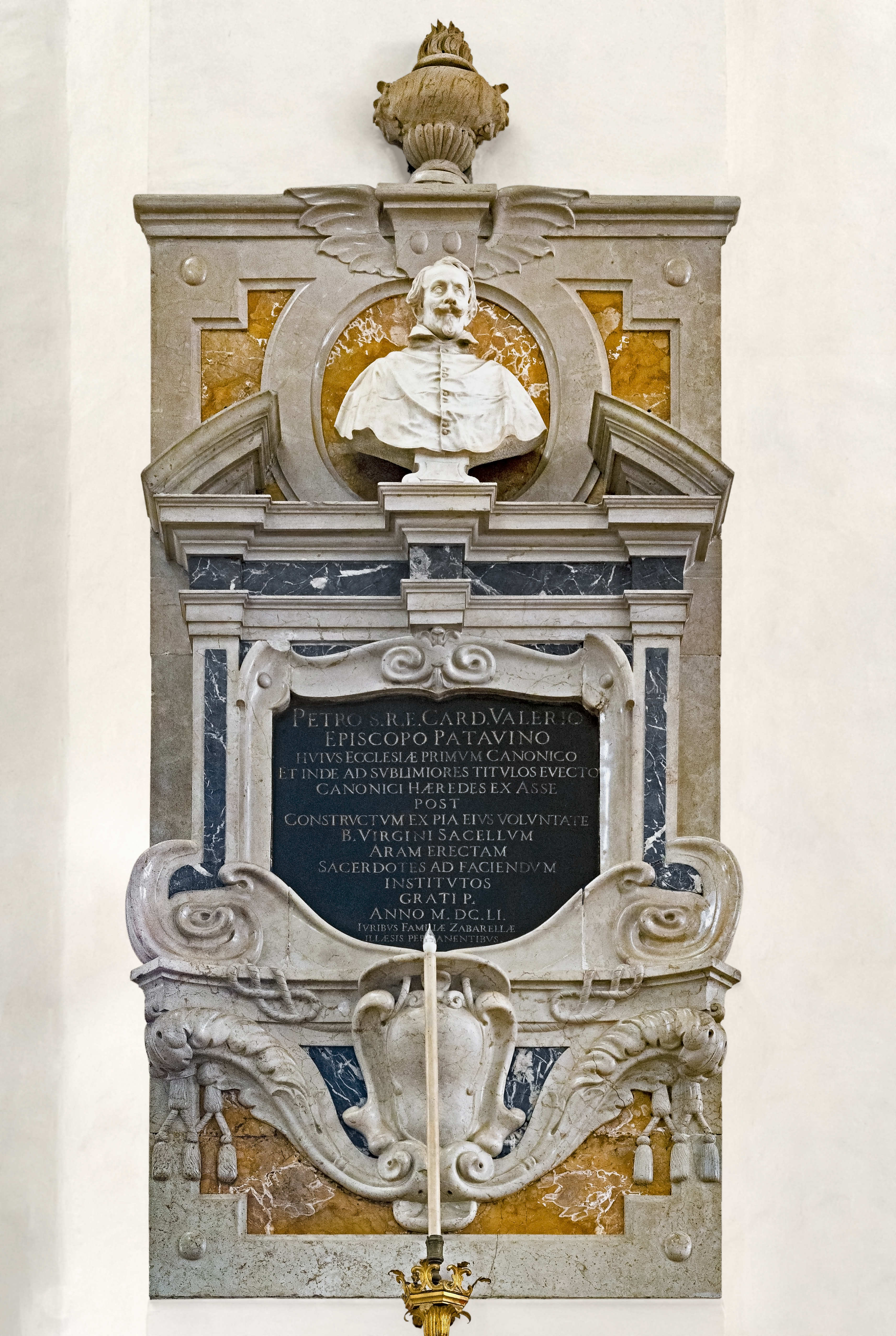 Depicted person: Pietro Valier – Italian cardinal of the seventeenth century.